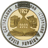 Coin of Ukraine